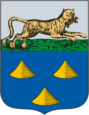 Nizhneudinsk (Irkutsk oblast), coat of arms (1790)